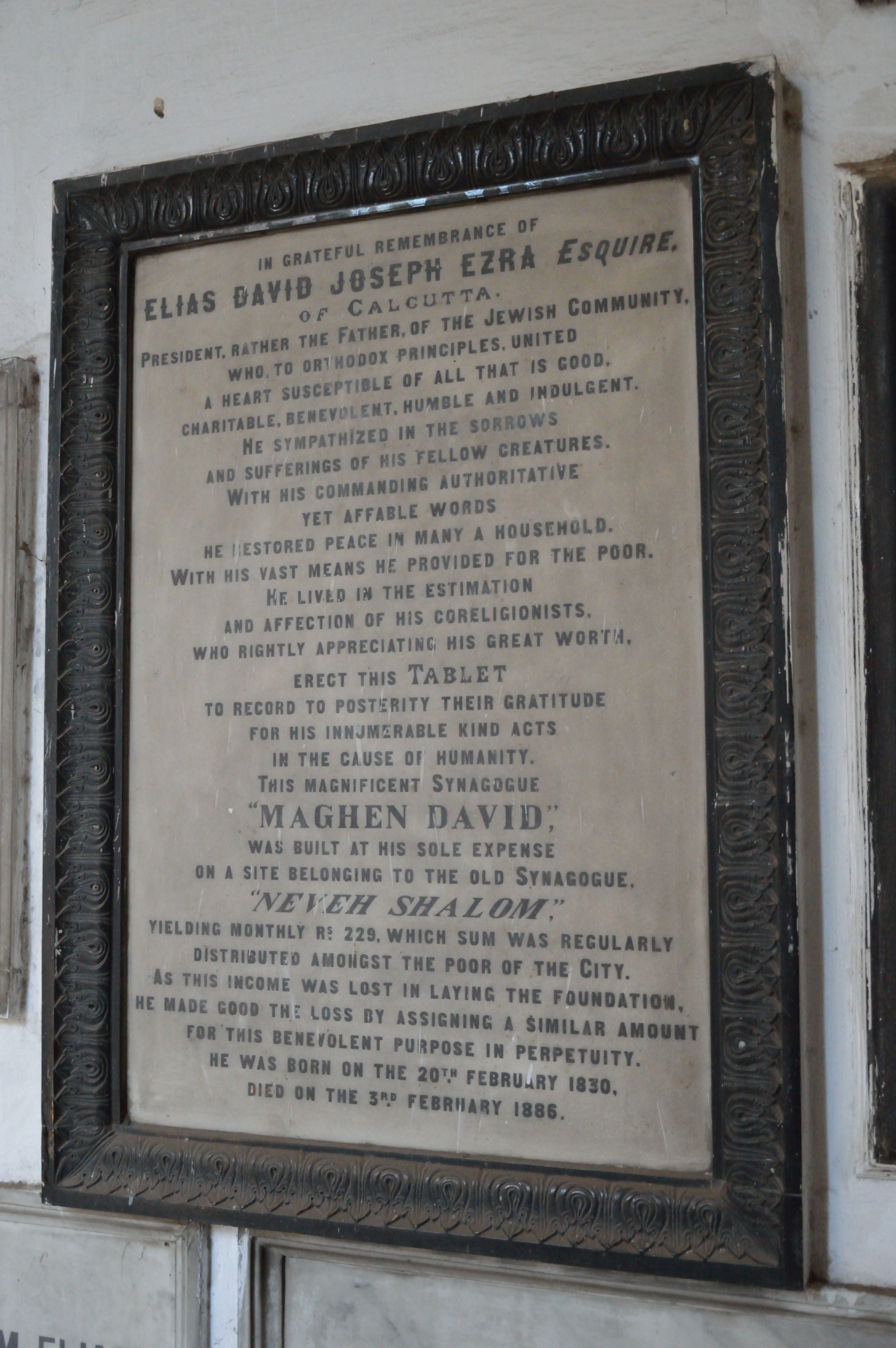 This photograph has been taken during the 'Wikipedia/Wikimedia Photowalk' event for the 'Wikipedia Takes Kolkata II' campaign on 3 March 2013, in Kolkata.